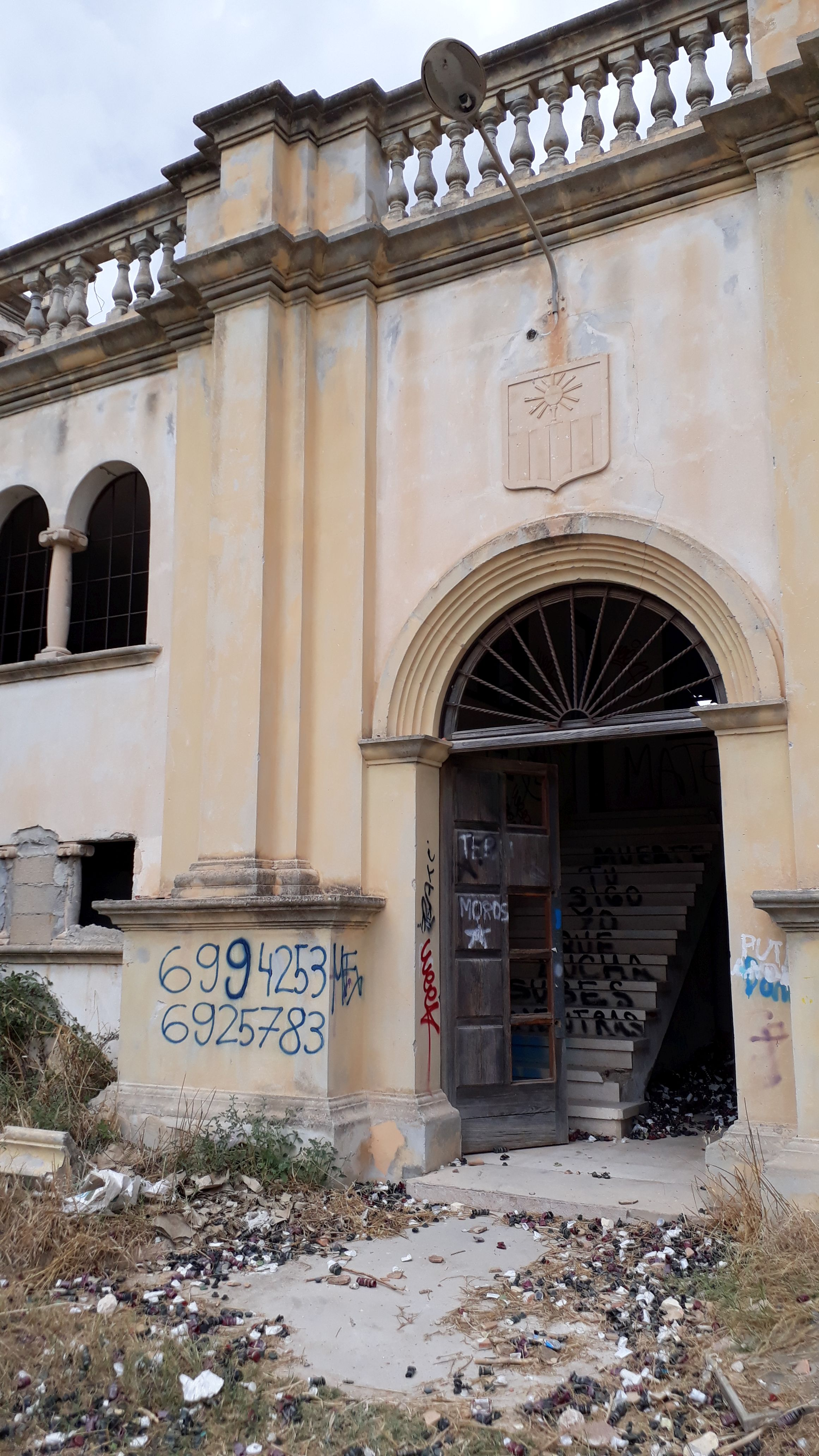 Former Celler cooperation in Fellanitx, Mallorca.